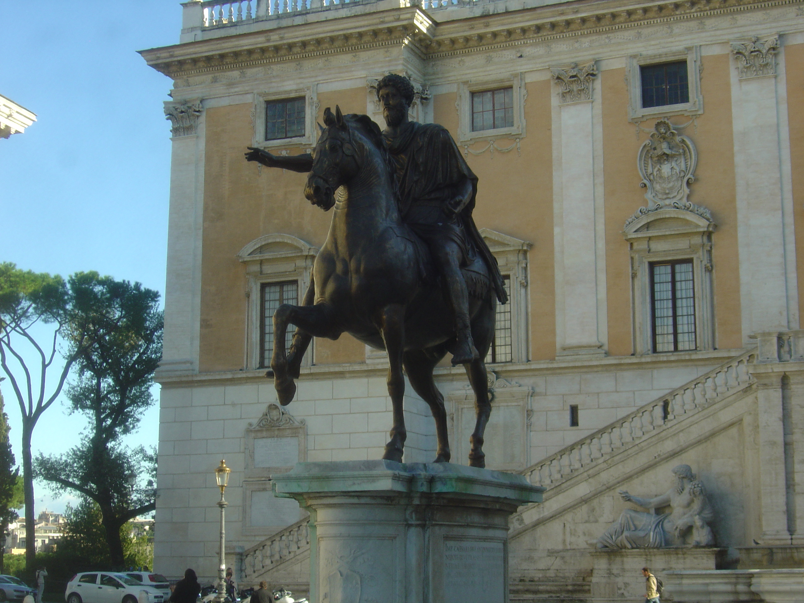 Equestrian statue of Marcus Aurelius, Rome